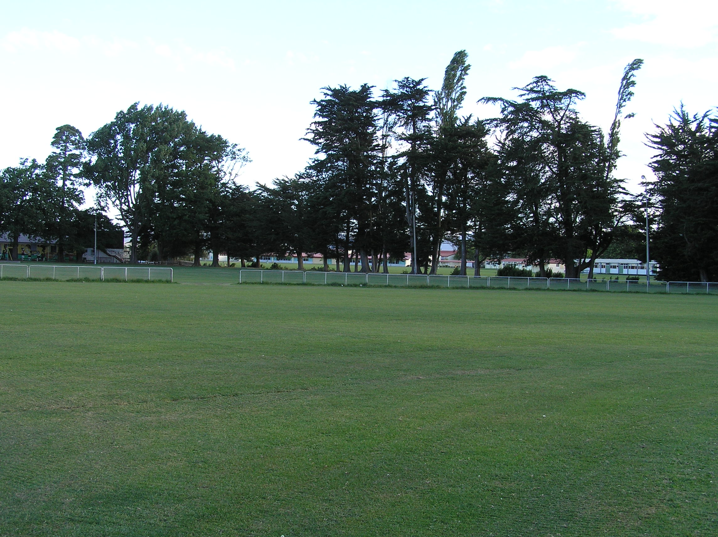 Papanui Domain where the Pre-Colonization Bush once stood with Papanui High School in the background.